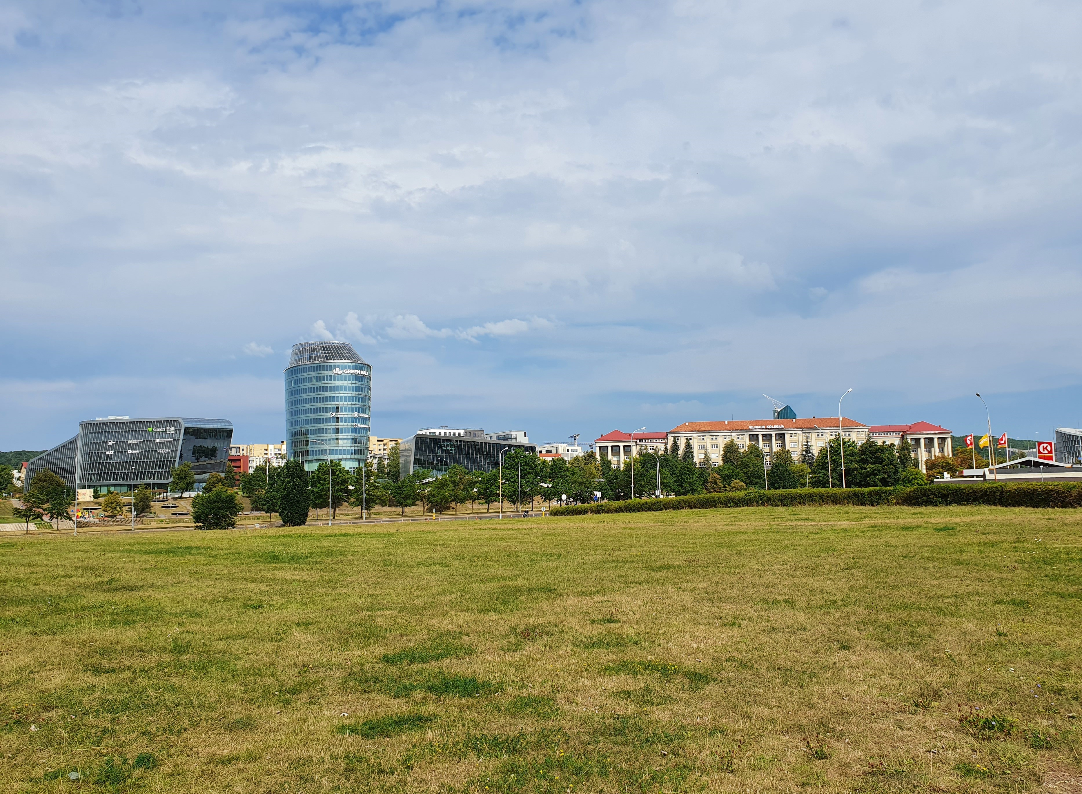 View to Žvėrynas eldership from Naujamiestis eldership of Vilnius.